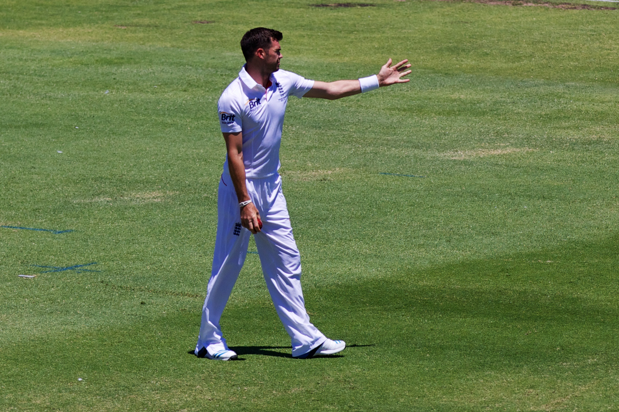 Jimmy Anderson at the WACA during the 2013-14 Ashes